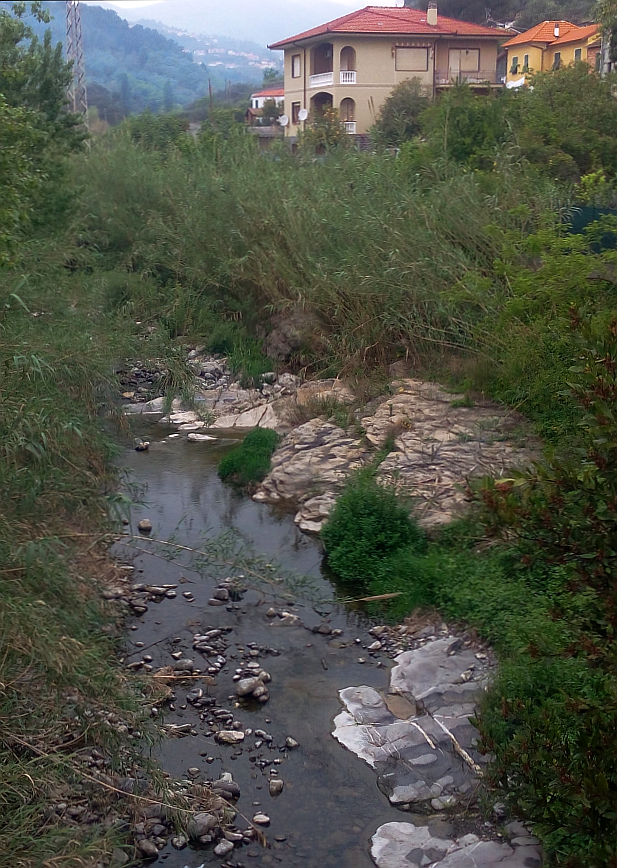 Torrente San Pietro (Liguria, Italy) near Diano San Pietro